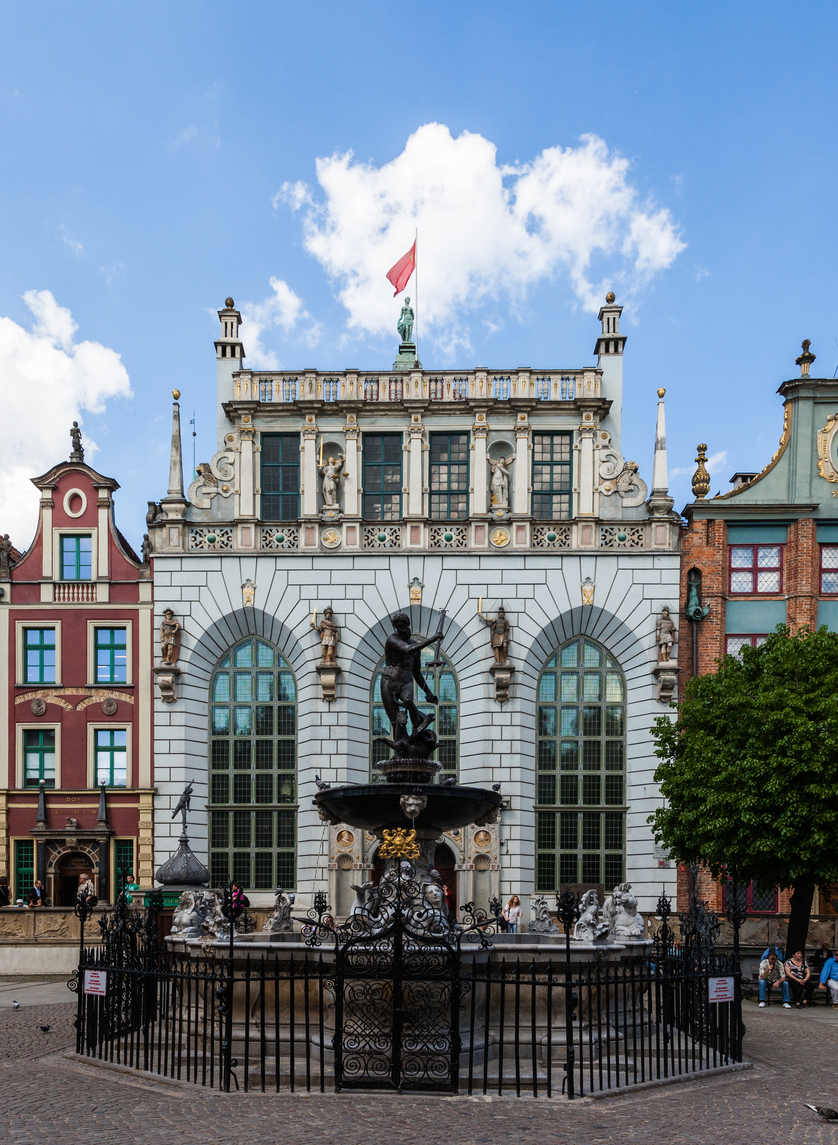 Artus Court, Gdansk, Poland